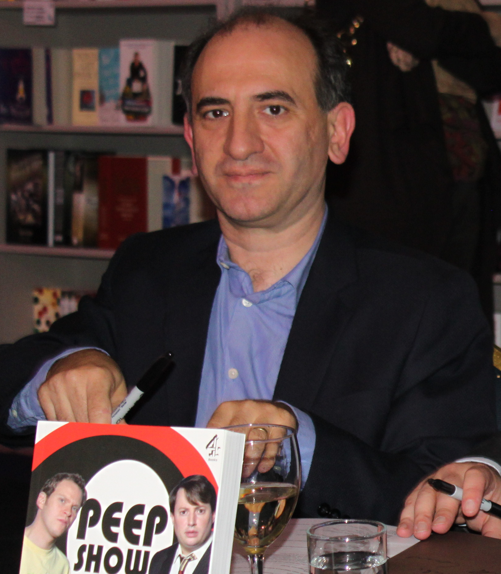 Armando Iannucci at Cheltenham Literary Festival October 17th 2010